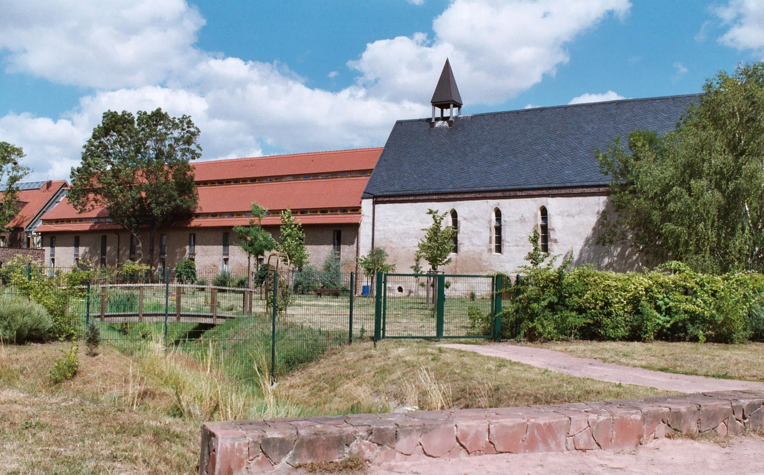 Helfta Convent (Lutherstadt Eisleben), the church